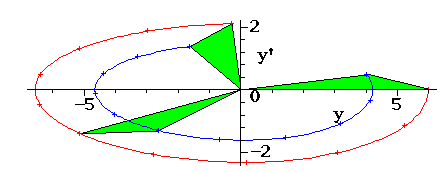 constant wronskian in phase space (y,y')